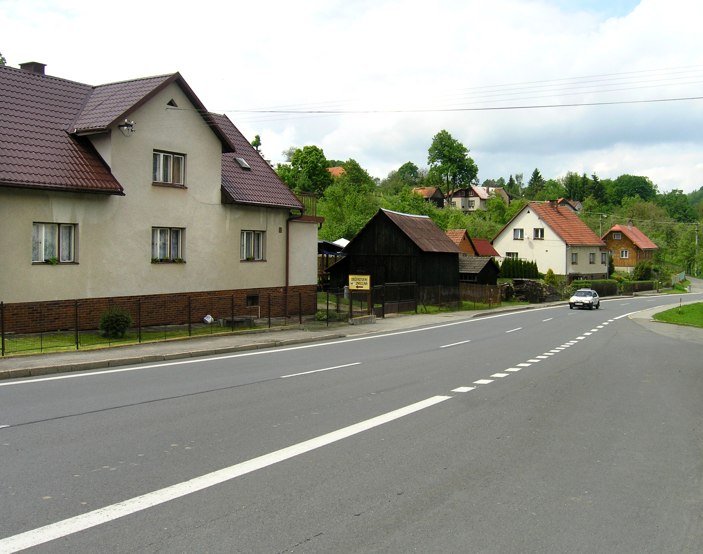 Road No 49 in Pozděchov, Czech Republic